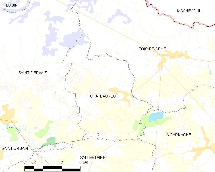 Map of French municipality Châteauneuf